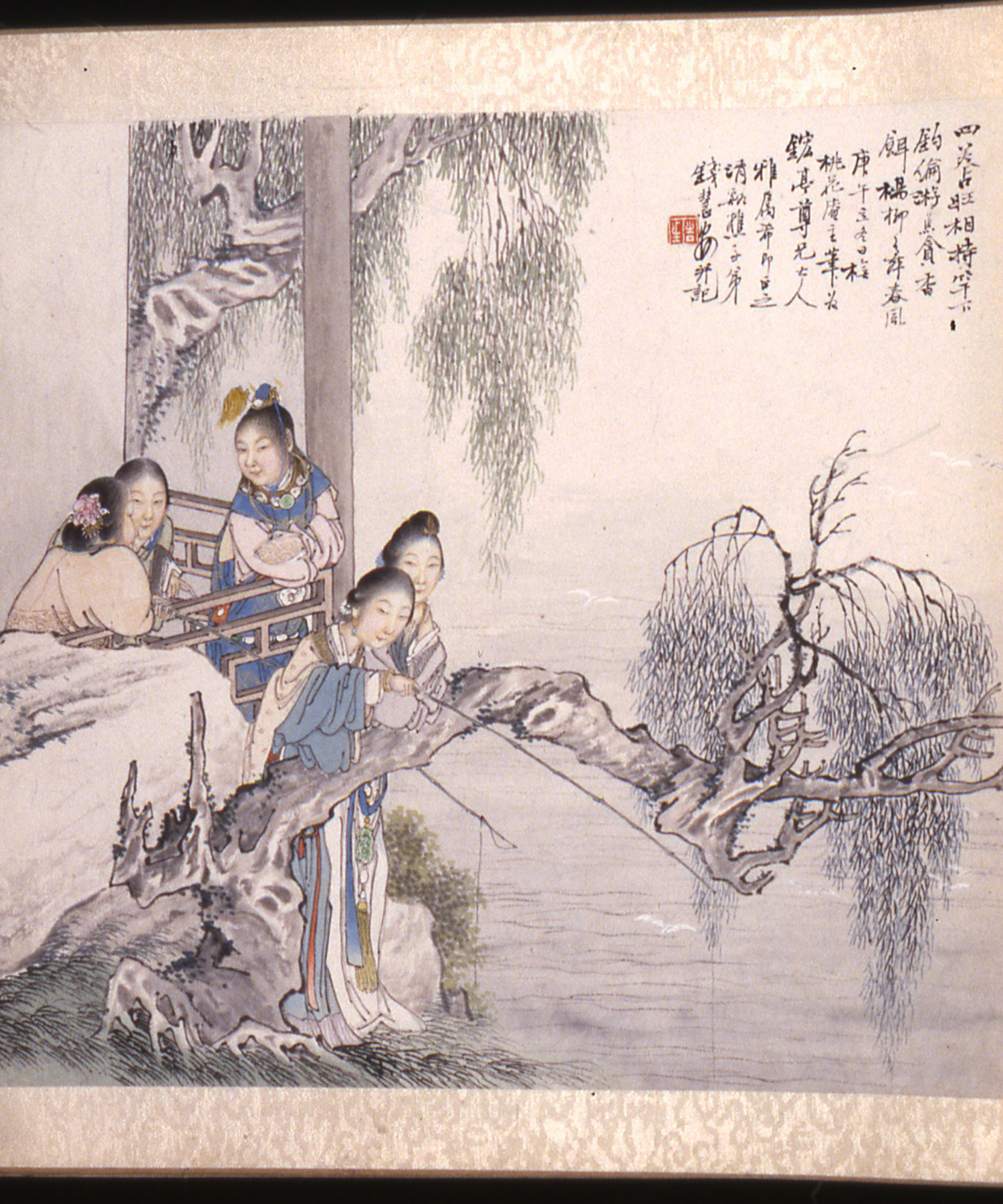 The artist writes at upper right: Seeking good omens, four beauties go fishing. Fish are ready for delicious bait, As willow branches swing in spring breezes. The four beauties are joined by a man (standing beside the post, with a blue cap), who suggested that catching fish would be an opportunity to tell fortunes.